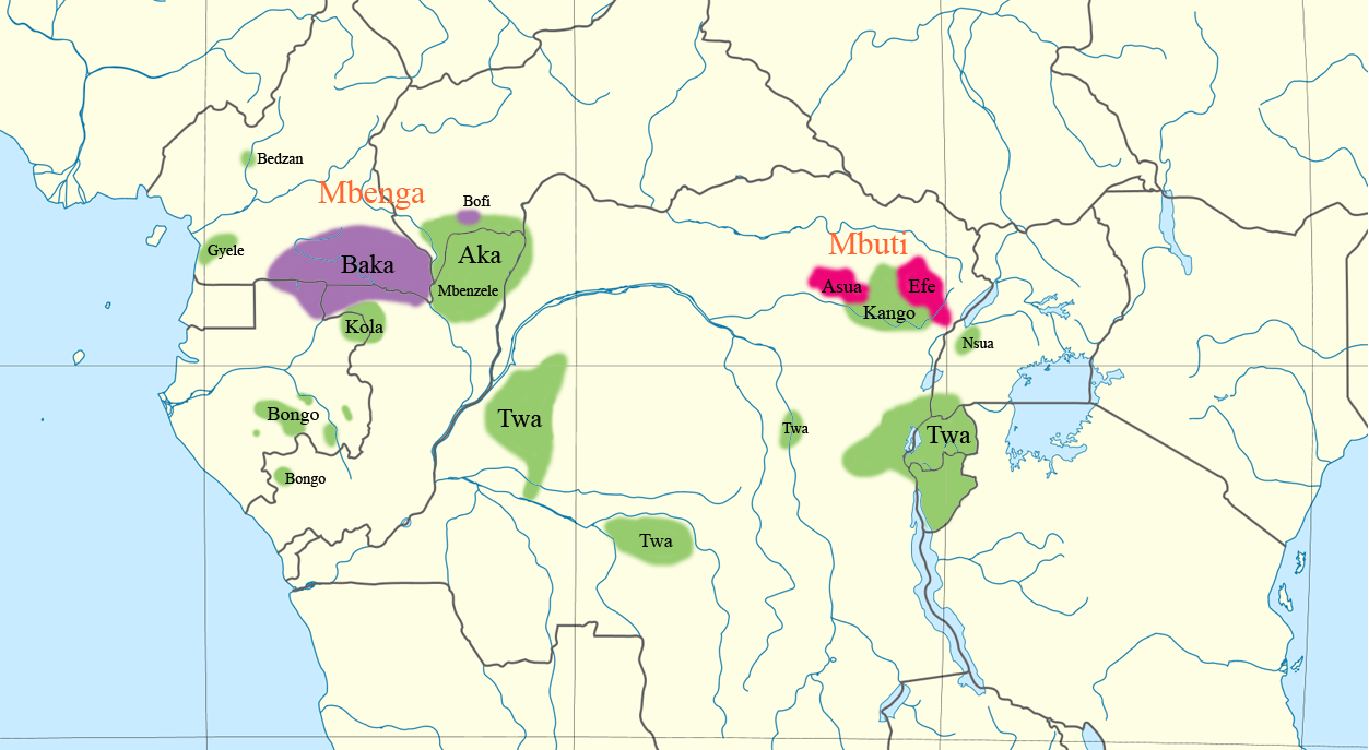 Distribution of Pygmy peoples per Hewlett & Fancher, in press 2011